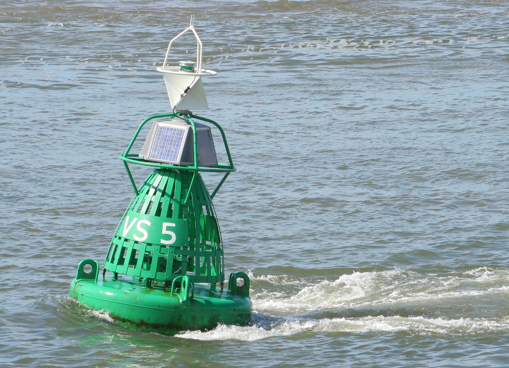 Buoy VS5 in the Vliestroom near Vlieland (the Netherlands)